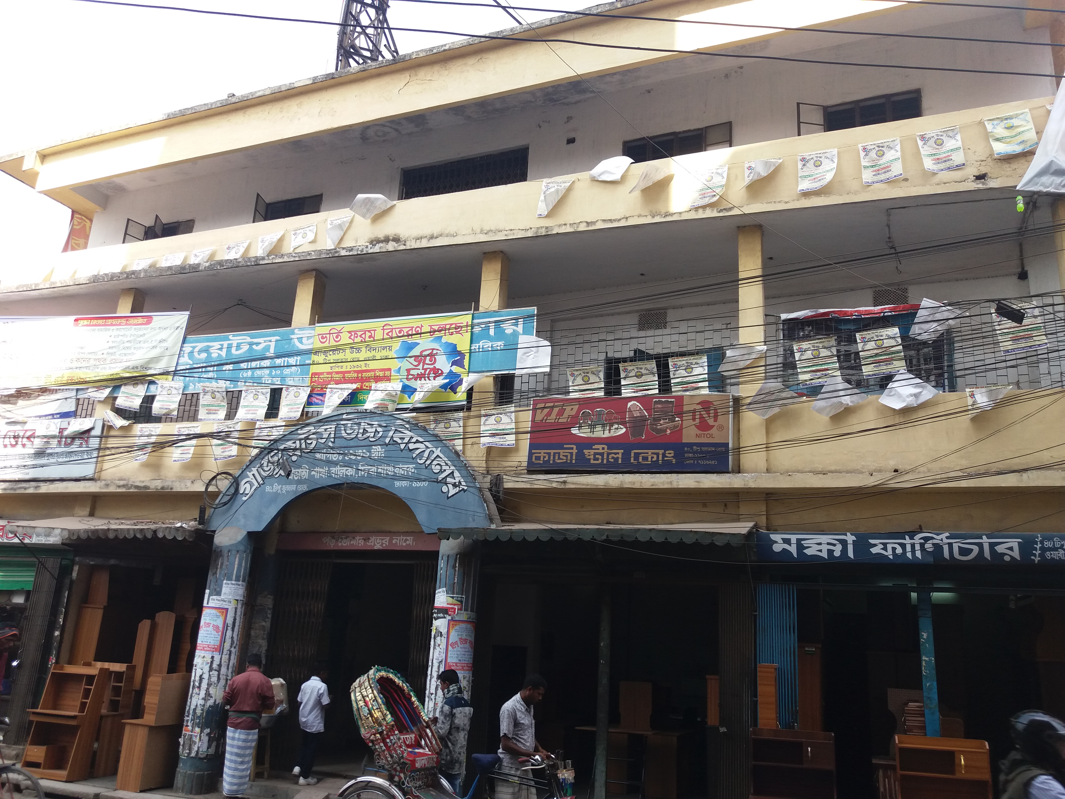 ঢাকার টিপু সুলতান রোডে অবস্থিত একটি বিদ্যালয়। এই স্থানে, আগে শঙ্খনিধি নাচঘর ছিল।